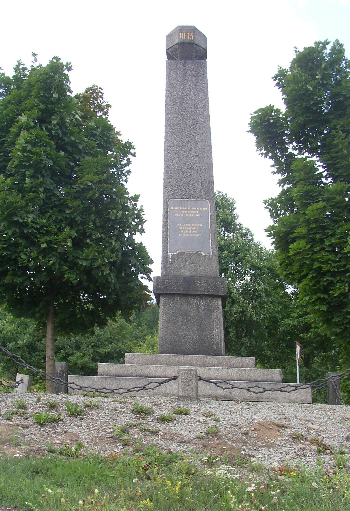 Přestanov, Czech Republic. Memorial at the crossroads, where decisive fight took place during the first day of Battle of Kulm (29th August 1813).